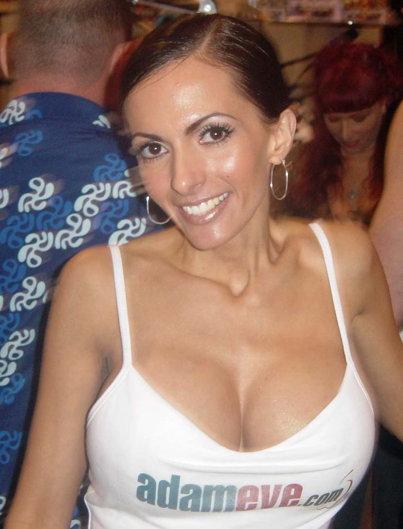 Catalina Cruz at the 2004 AVN Convention in Las Vegas